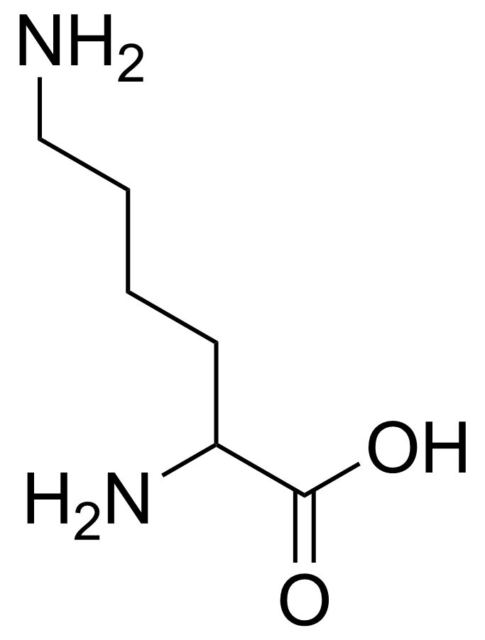 Amino acid lysine, simplified formula (i.e. without stereochemistry)